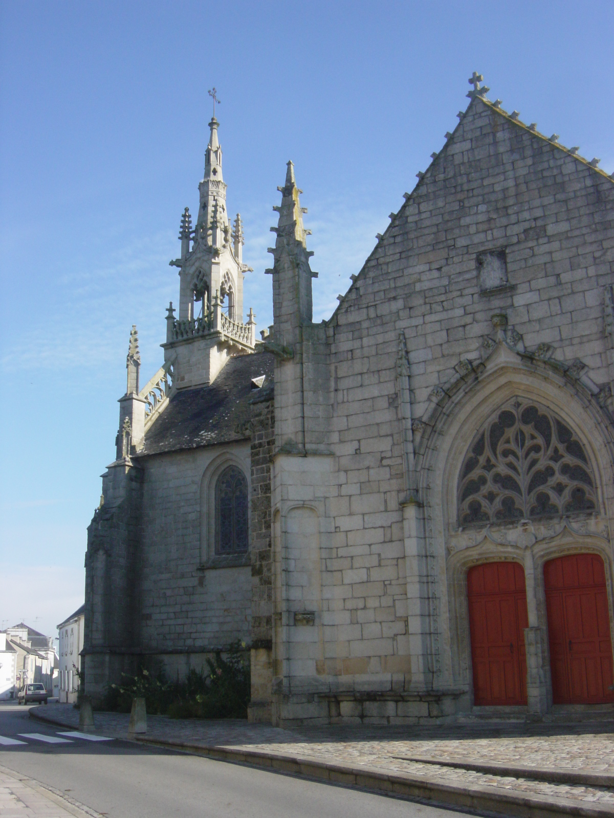 View of the chapel of Notre-Dame-des-Fleurs, Languidic, France.